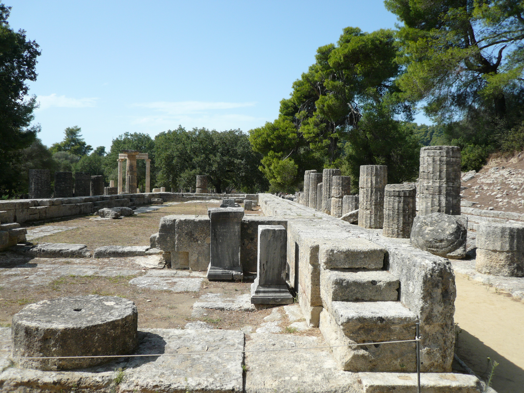 Archaeological Site of Olympia (Greece)